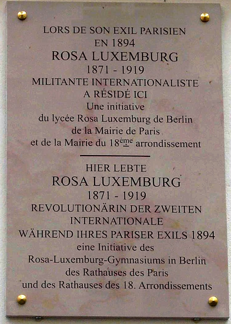 Dual-language memorial plaque at the Paris exile location of Rosa Luxemburg in 1894.